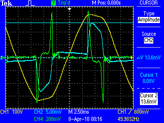 Oscillogram of current measurement using Rogowski Coil for switched-mode load, CH1 - 230V Voltage, CH2 - Current Shunt Output, CH4 - Rogowski Coil Output (Amplifier output G=500; Based on AD8220)